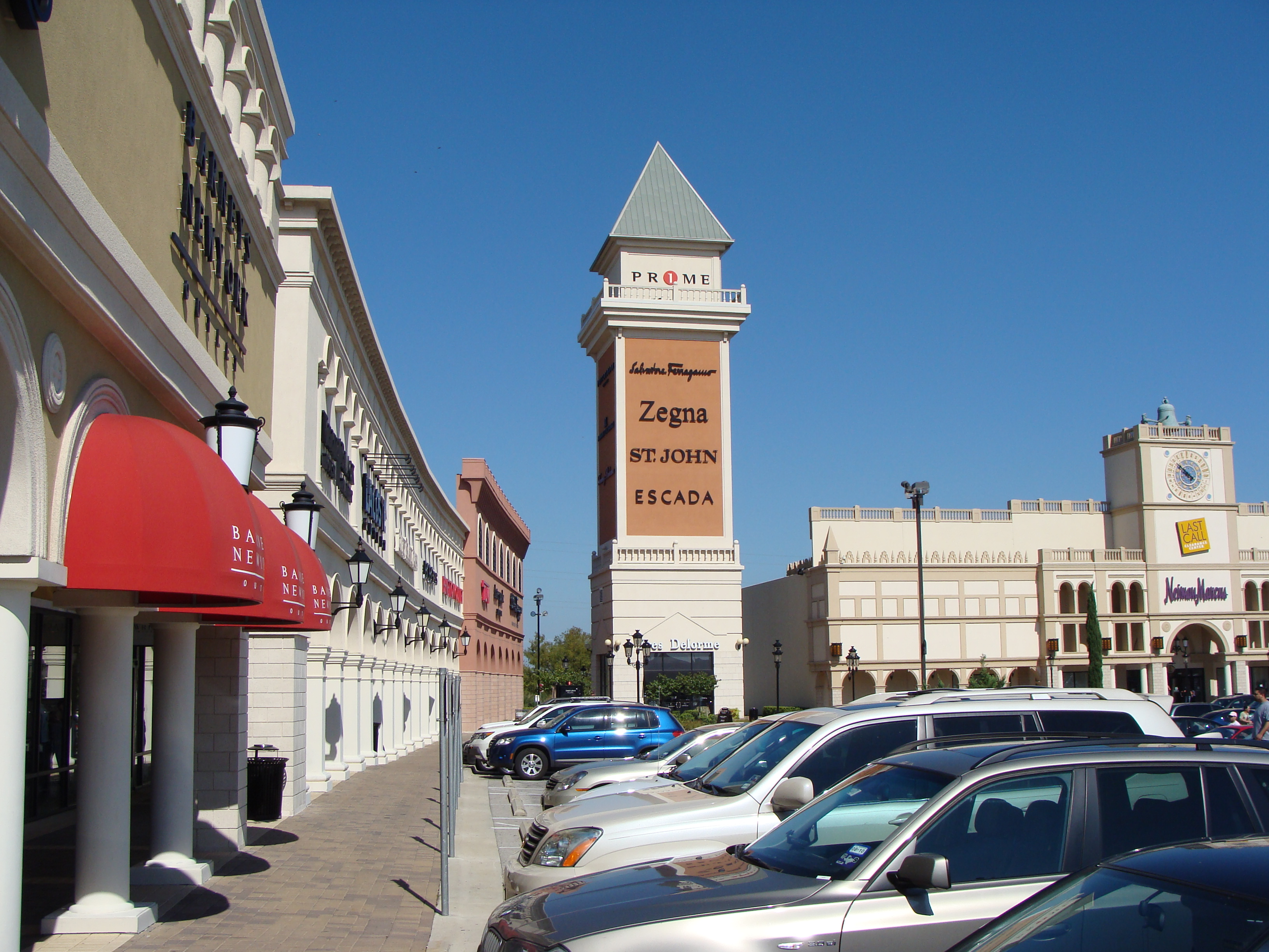 The northern end of The Prime Outlets Malls at San Marcos, Texas.